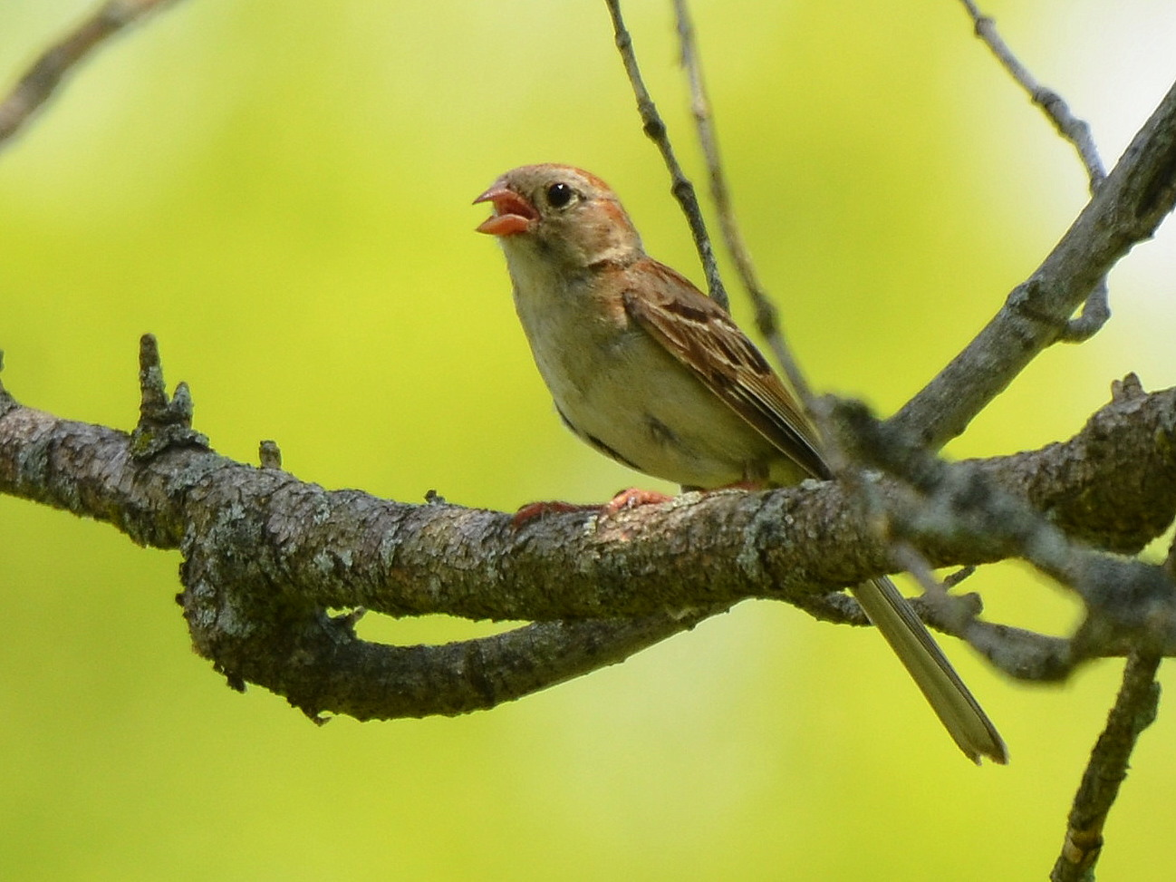 Woodstock, IL